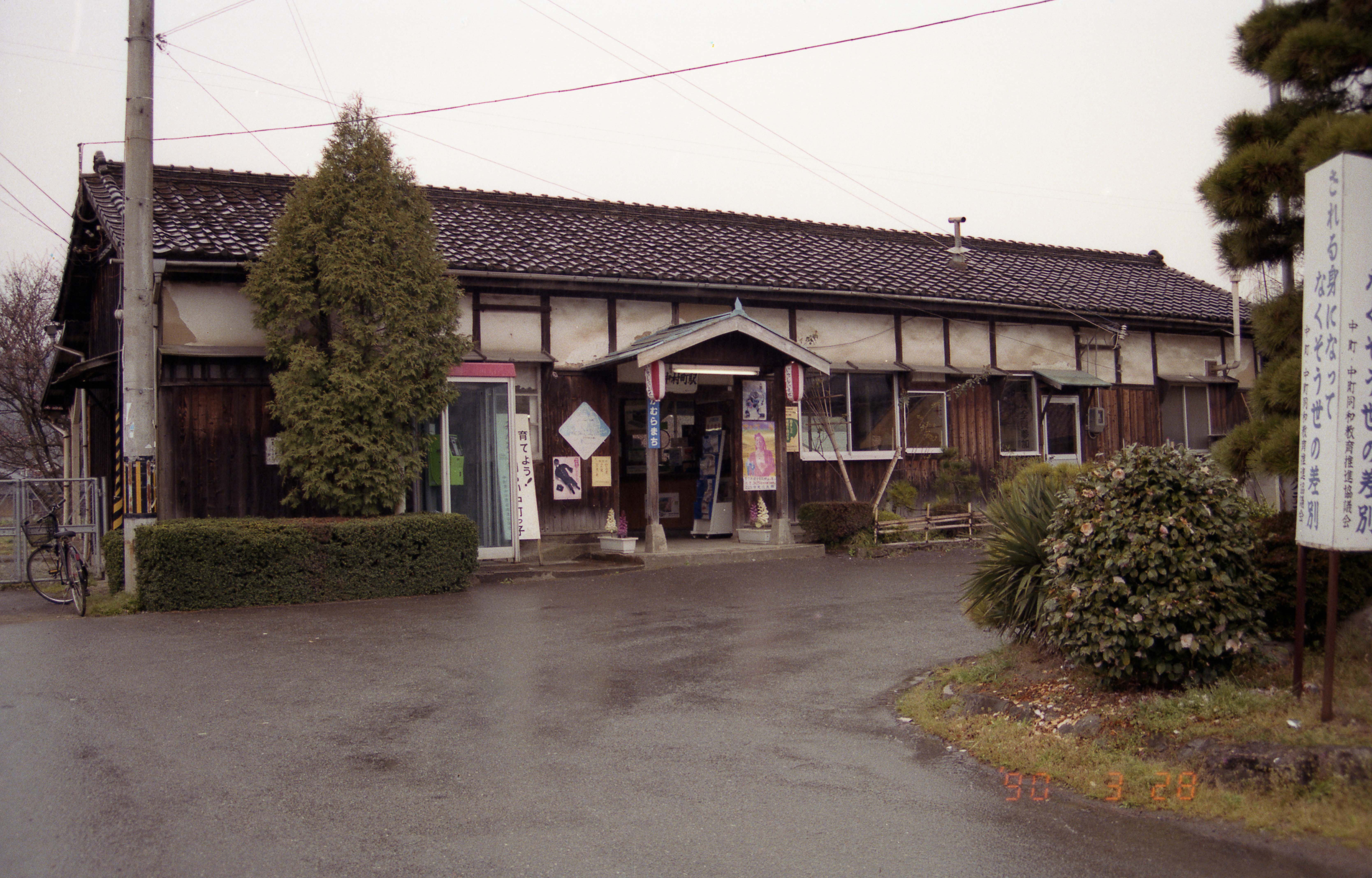 The building of Nakamuramachi Station,West Japan Railway Company Kajiya Line(before abolished)